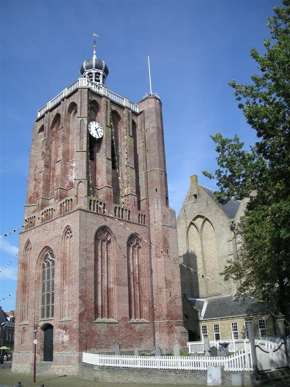 Grote of Sint-Gertrudiskerk (toren) Workum